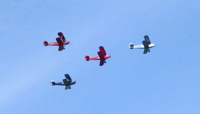 Formation of four biplanes at Internationale Luft- und Raumfahrtausstellung 2006, Berlin, Germany. Public Domain.